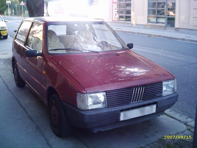 Fiat Uno